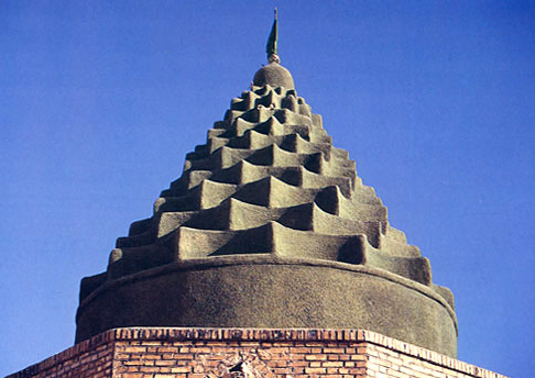 Picture of the dome of Emamzadeh Hamzeh. It is located somewhere between Hendijan and Mah-shahr, in Khuzestan province. I am supplying this image to Wikipedia. I took the image. Use under GFDL terms.